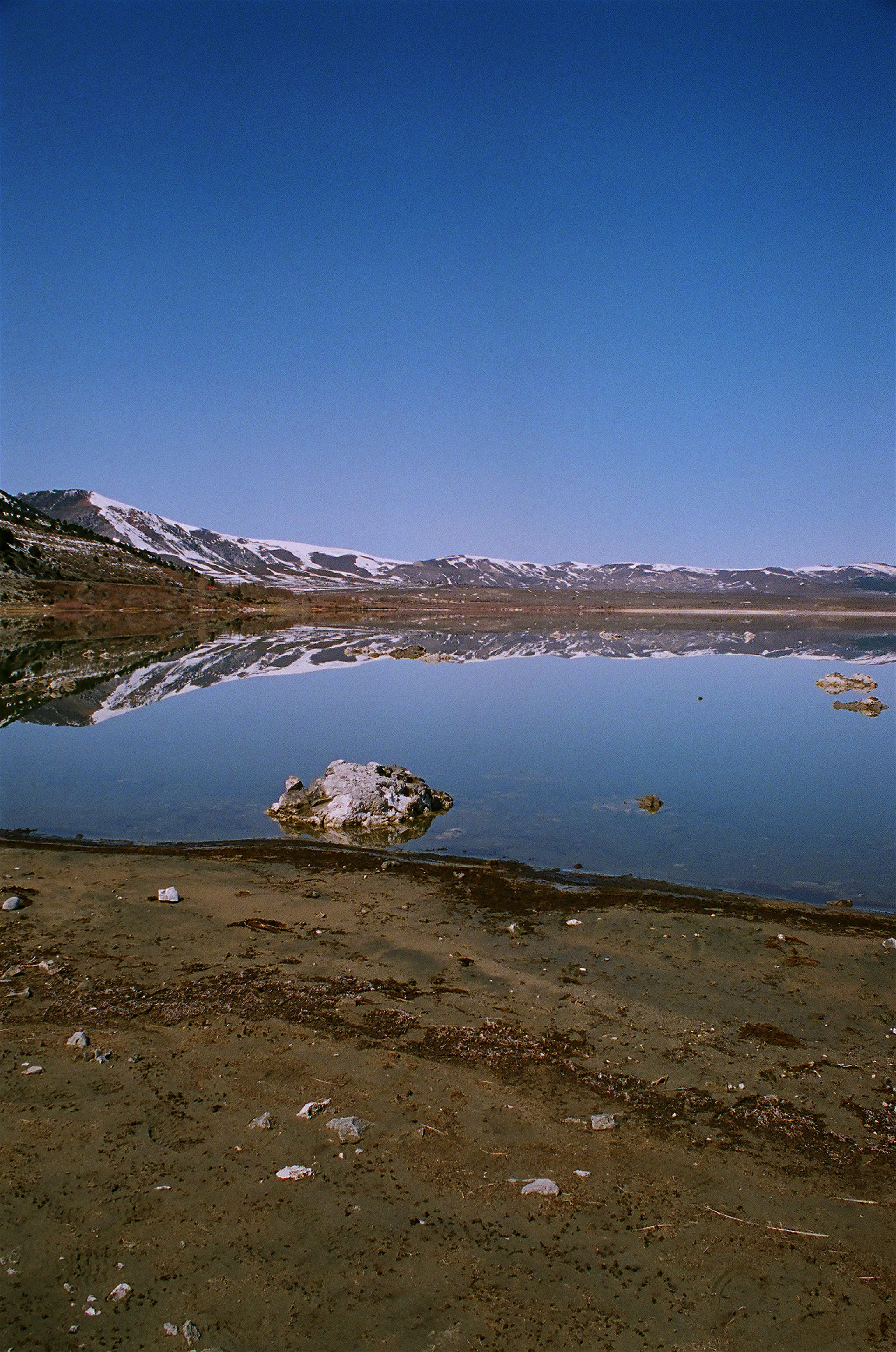 mono lake with tufa and sierra peaks reflecting